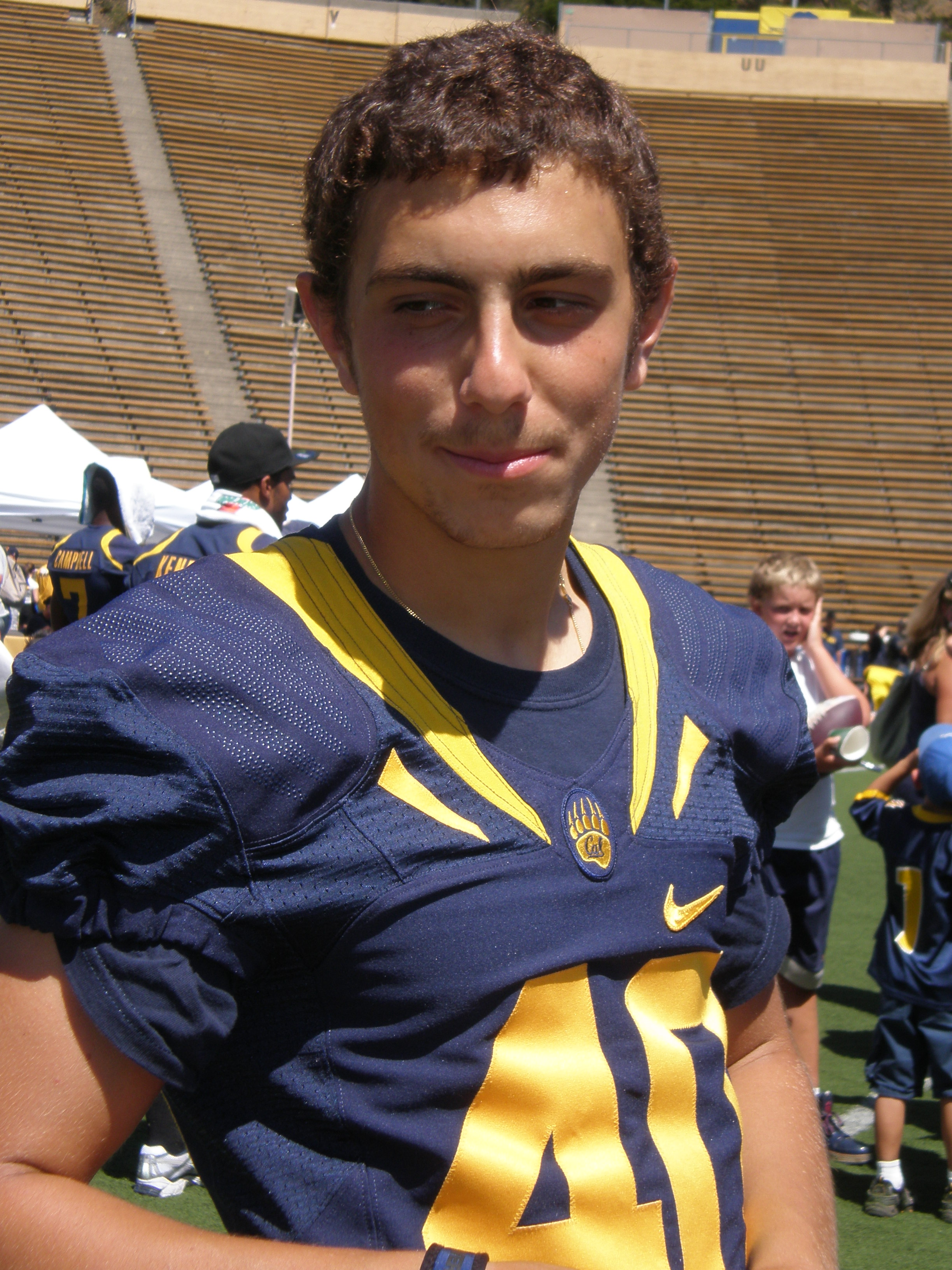 Cal kicker Giorgio Tavecchio at Cal Fan Appreciation Day at Memorial Stadium in Berkeley, CA.